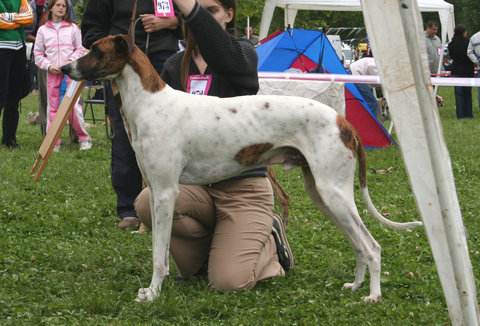 Multiple show winner male Magyar agár